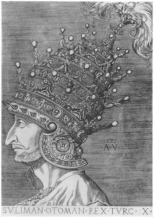 Sultan Suleyman the Magnificent (Agostino Veneziano's depiction of the sultan - author died over 100 years ago) Agostino Veneziano's engraving of Suleiman the Magnificent.[1]. Note the 4 tiers on the helmet (which he had commissioned from Venice, symbolizing his imperial power, and exceeding the 3-tiered papal tiara.[2] This was a most untypical piece of headgear for an Ottoman sultan, which he probably never normally wore, but which he placed beside him when receiving visitors, especially ambassadors. It was crowned with an enormous feather. [3 ]